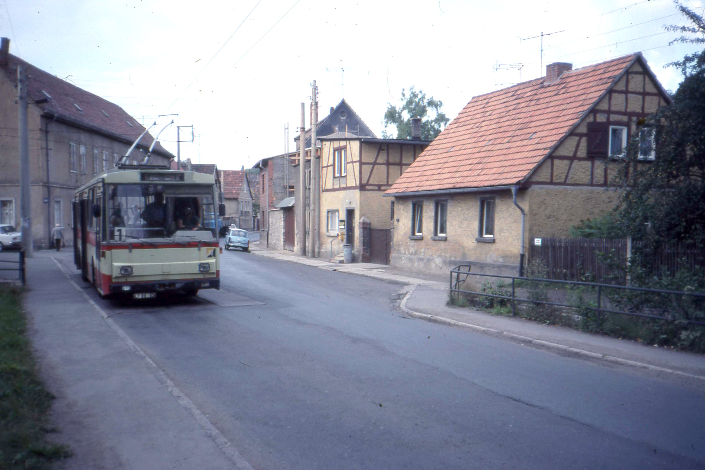 Škoda 14Tr trolleybus in Weimar, former German Democratic Republic (GDR)